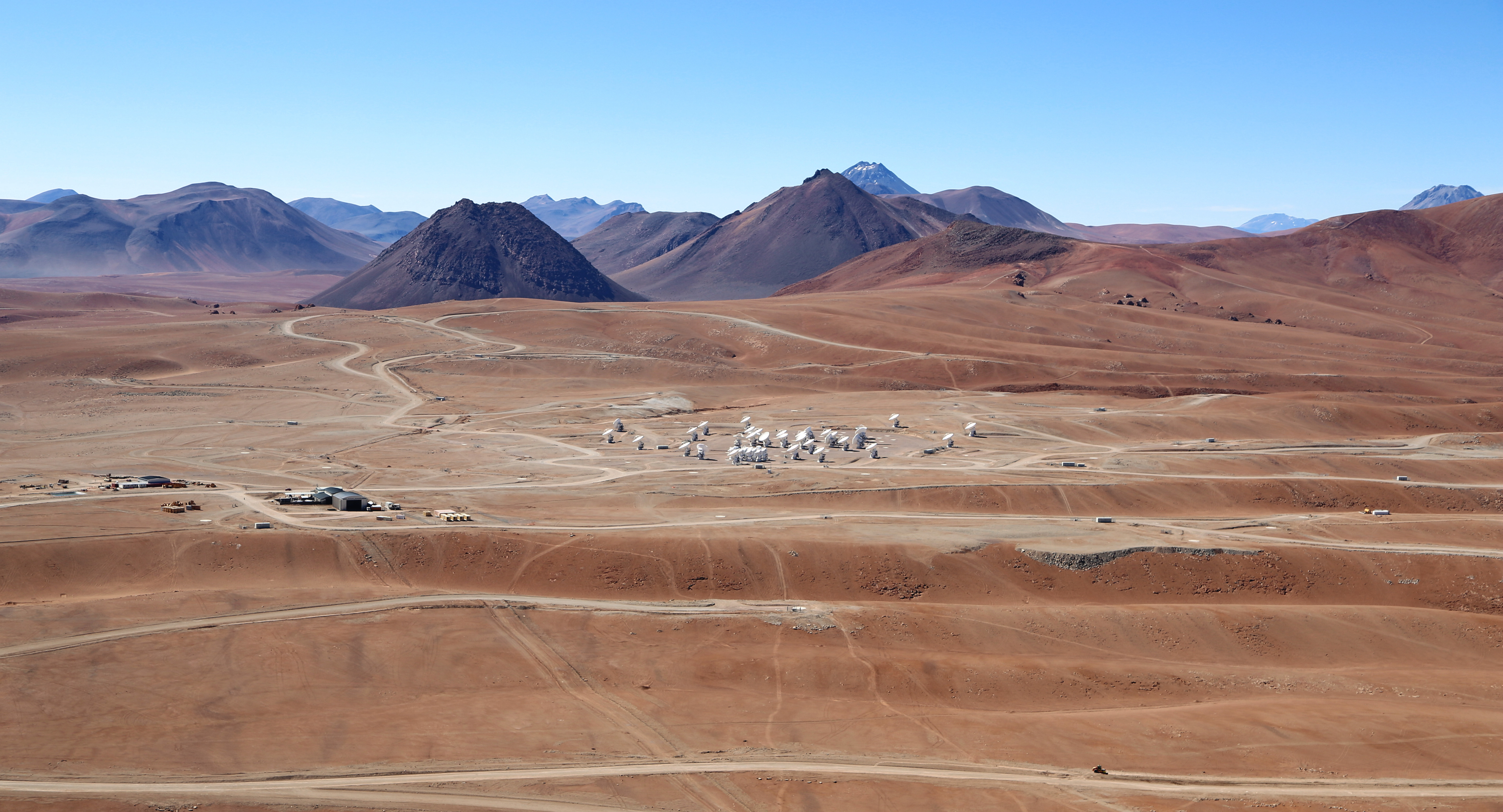 This beautiful image, taken in December 2012, shows the array of antennas of the Atacama Large Millimeter/submillimeter Array (ALMA), the largest astronomy project in existence, located at the Chajnantor Plateau in the Chilean Andes. The large antennas are 12 metres in diameter, and the smaller ones, gathered together in the middle of the image, form the ALMA Compact Array (ACA), which is made up of 12 antennas with a diameter of 7 metres. When the array is completed, there will be a total of 66 antennas. ESO has initiated an outreach partnership with the ORA Wings for Science project, a non-profit organisation which offers aerial support to public research while on a year-long journey around the world. The two crew members of the Wings for Science Project, Clémentine Bacri and Adrien Normier, fly a special environmentally friendly ultralight to help out scientists by providing aerial capabilities ranging from air sampling to archaeology, biodiversity observation and 3D terrain modelling. The short movies and amazing pictures that are produced during the flights are used for educational purposes and for promoting local research. Their circumnavigation started in June 2012 and will finish in June 2013 with a landing at the Paris Air Show.